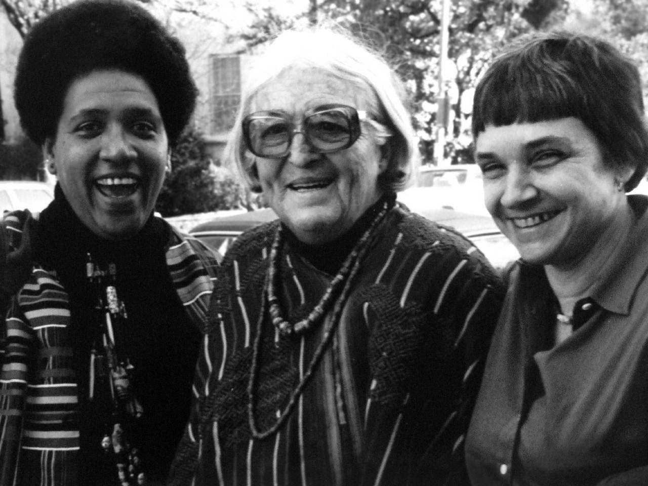 They led a writing workshop together in Austin, Texas.